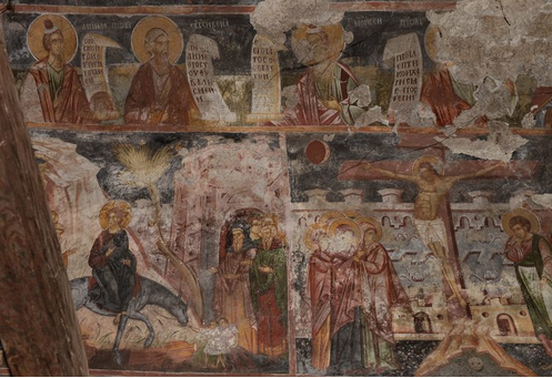 Ascension_of_Jesus_Church_in_Dobri_Dol_Fresco